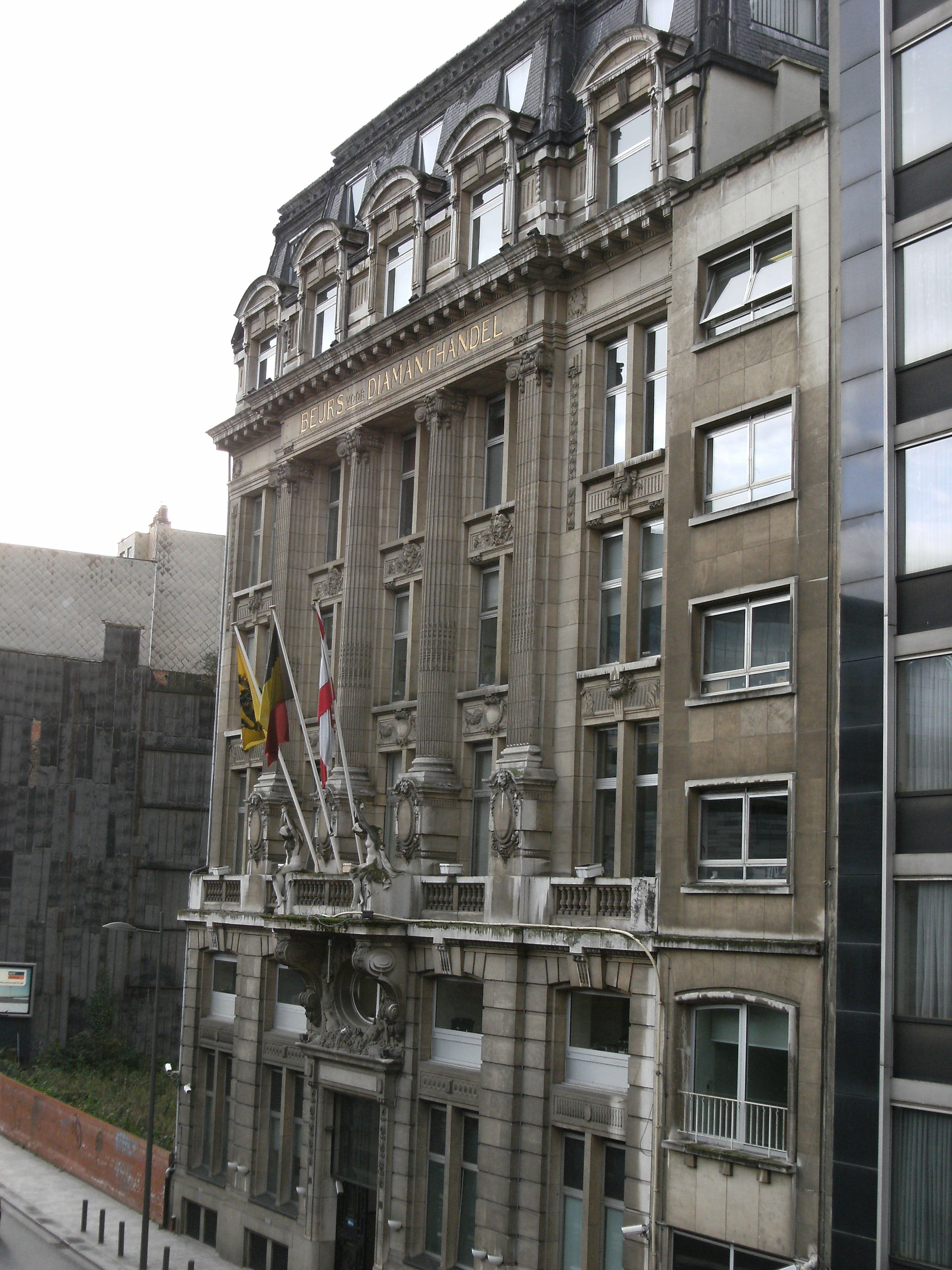 Diamond exchange building Antwerpen.